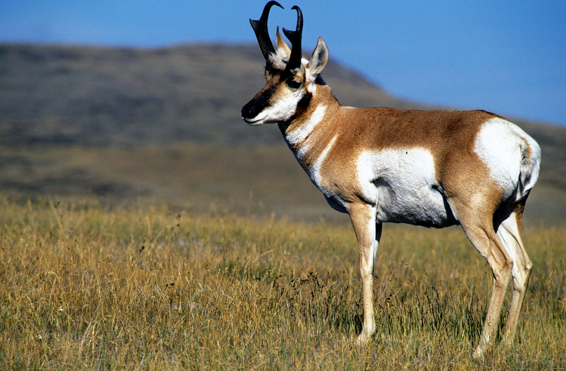 CMR National Wildlife Refuge was established, in part, for pronghorn antelope. Credit: USFWS